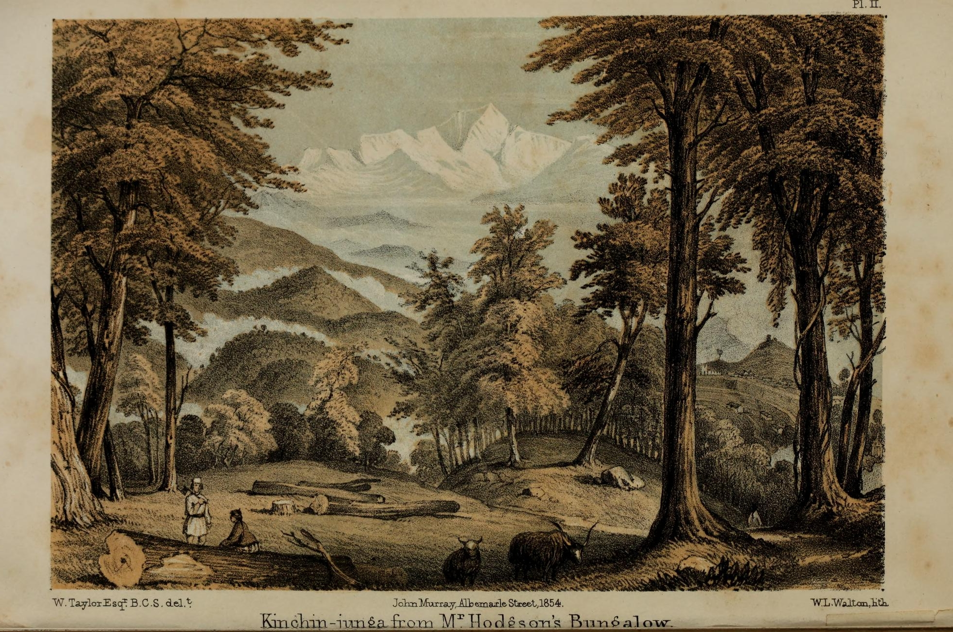 View of Kanchanjunga from Hodgson's Bungalow